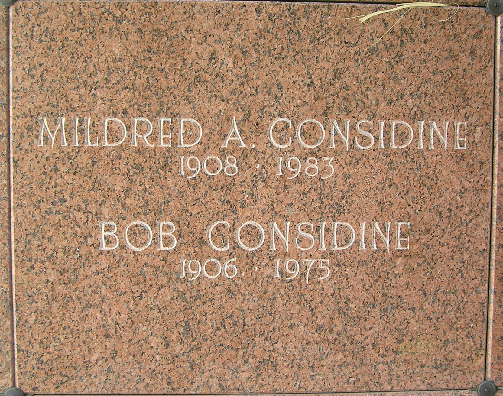 The crypt of Bob Considine in Gate of Heaven Cemetery